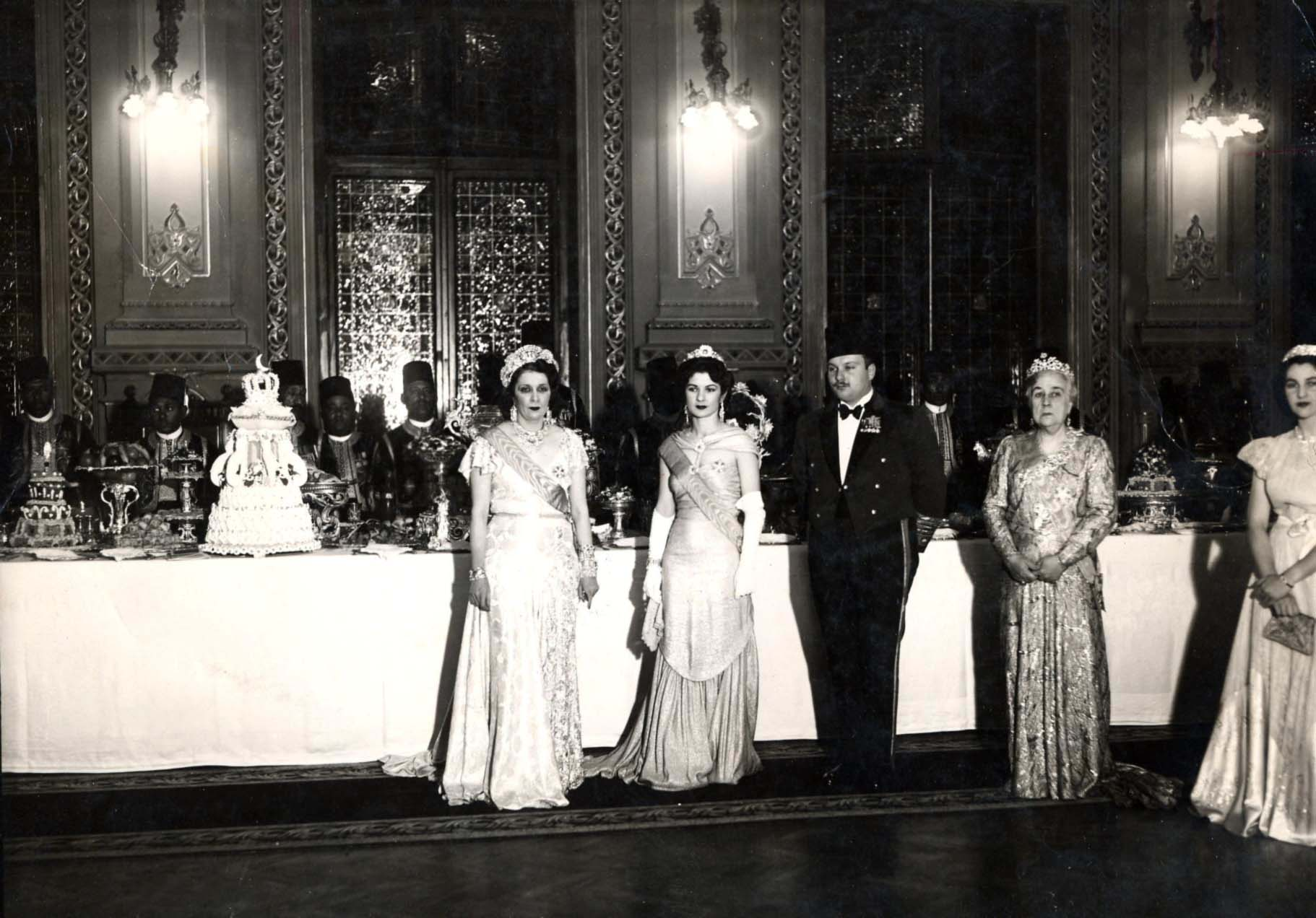 King Farouk I of Egypt standing at a banquet during his wedding. On his right are his wife Queen Farida, and his mother Queen Nazli. The Bibliotheca Alexandrina's caption erroneously states that the woman on Farouk's left is Sultana Malak; in fact, it is his paternal aunt Princess Nimet Mouhtar, the youngest daughter of Khedive Isma'il.